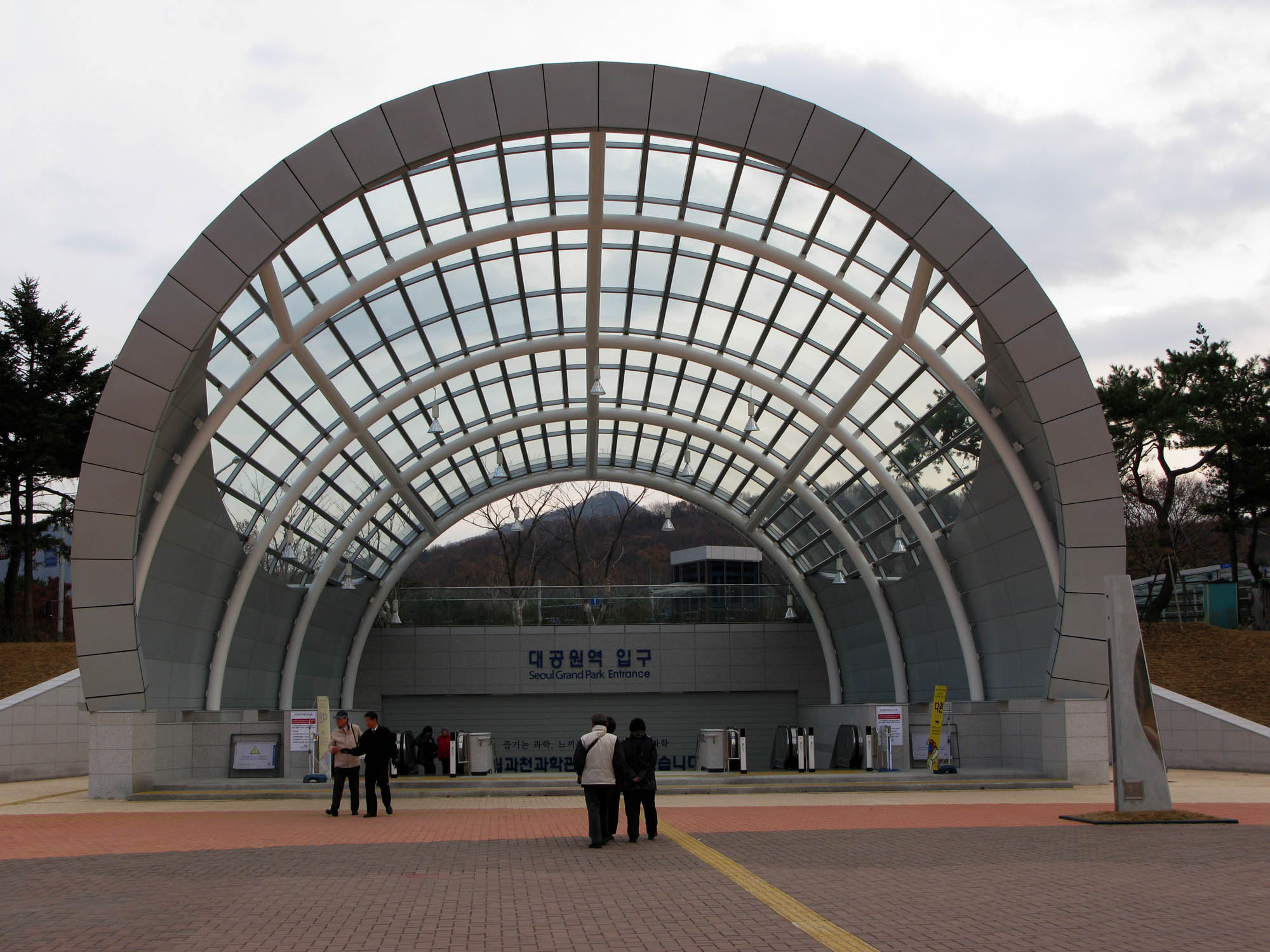 Seoul Subway Line 4 Seoul Grand Park Station